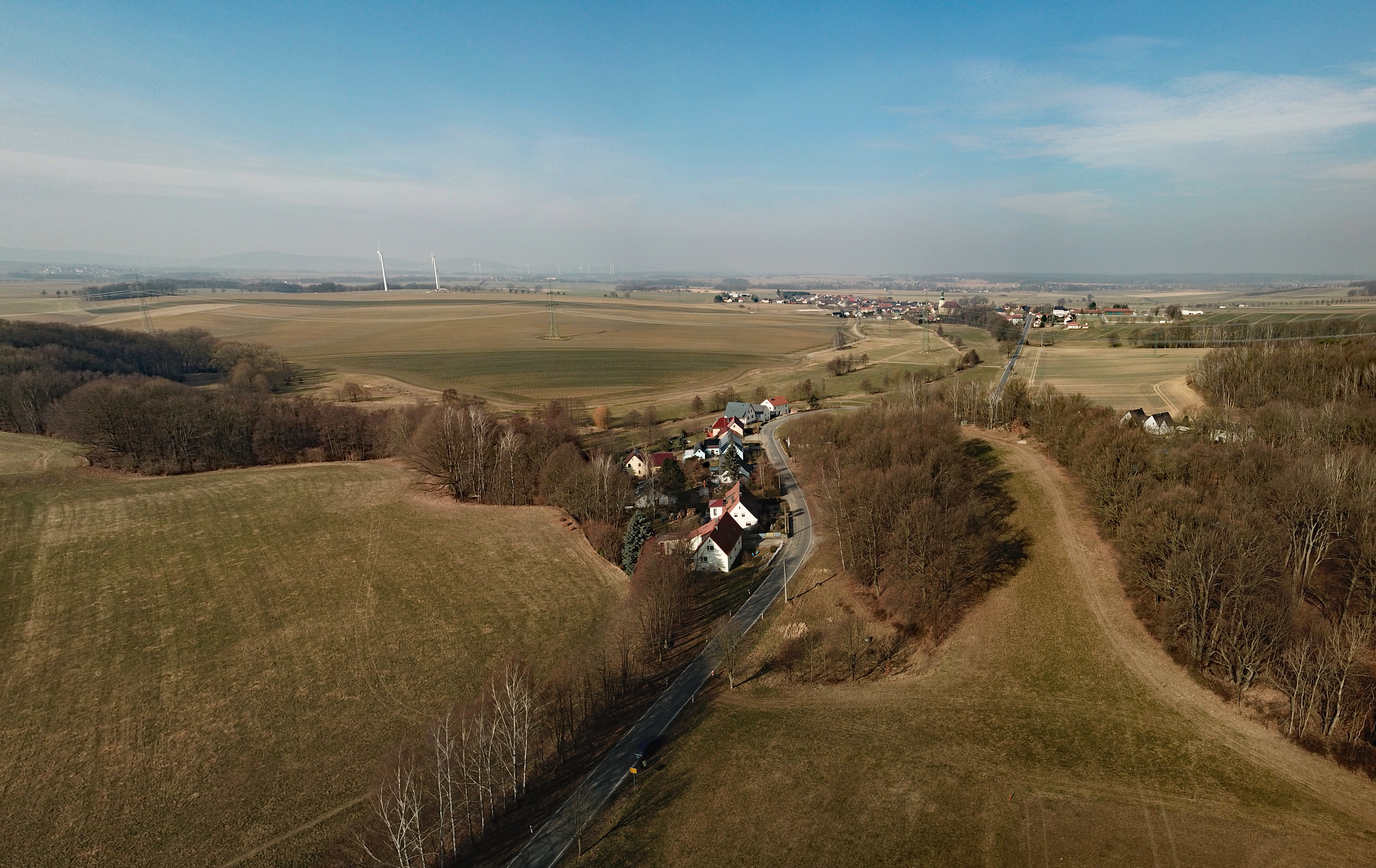 Prautitz (Crostwitz, Saxony, Germany) Hornjoserbsce: Powětrowy wobraz delnich Prawoćic